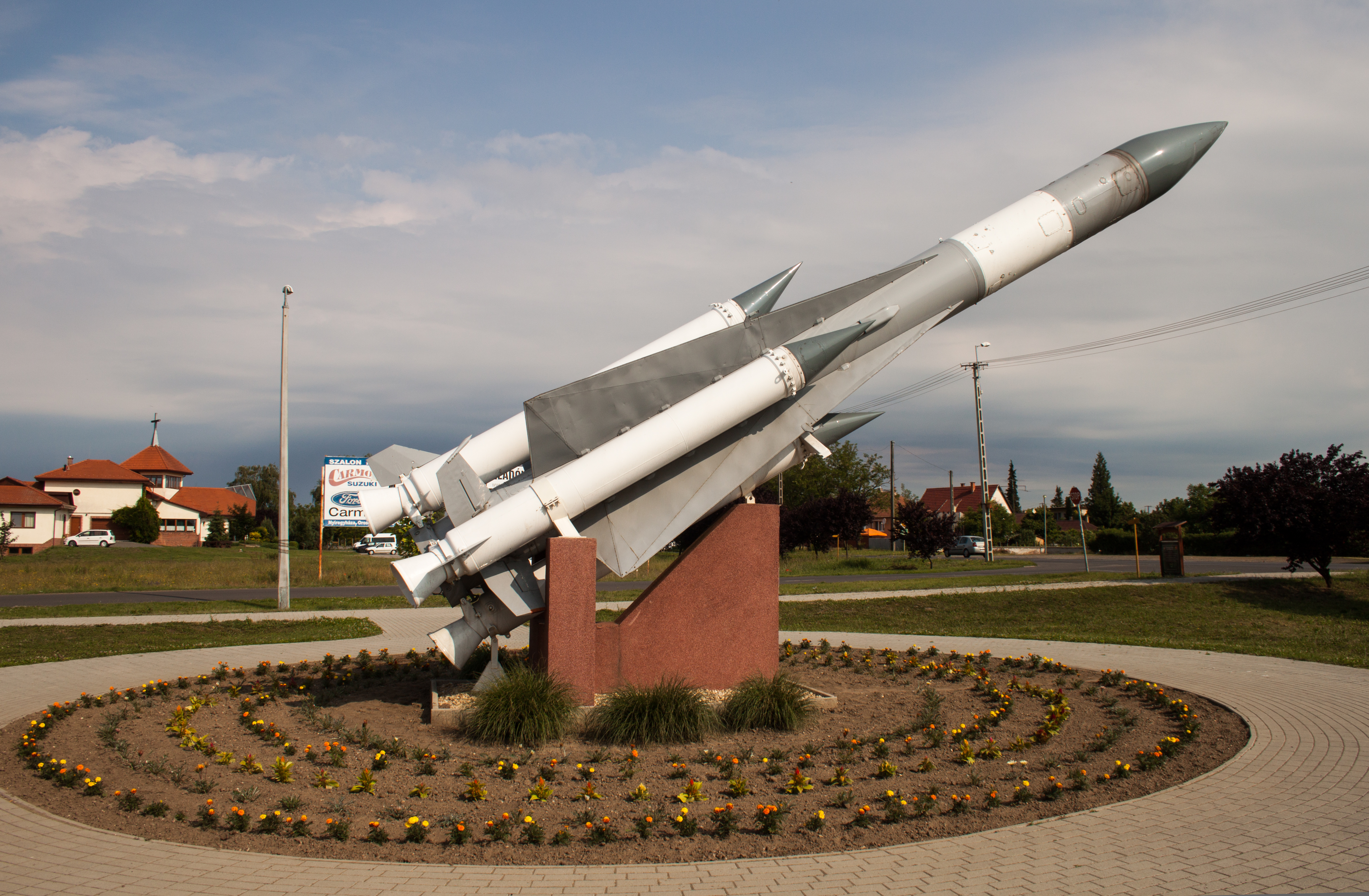 Nyírtelek, VEGA-M surface-to-air missile